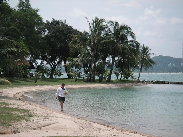 The northern beach of Saint John's Island, Singapore.